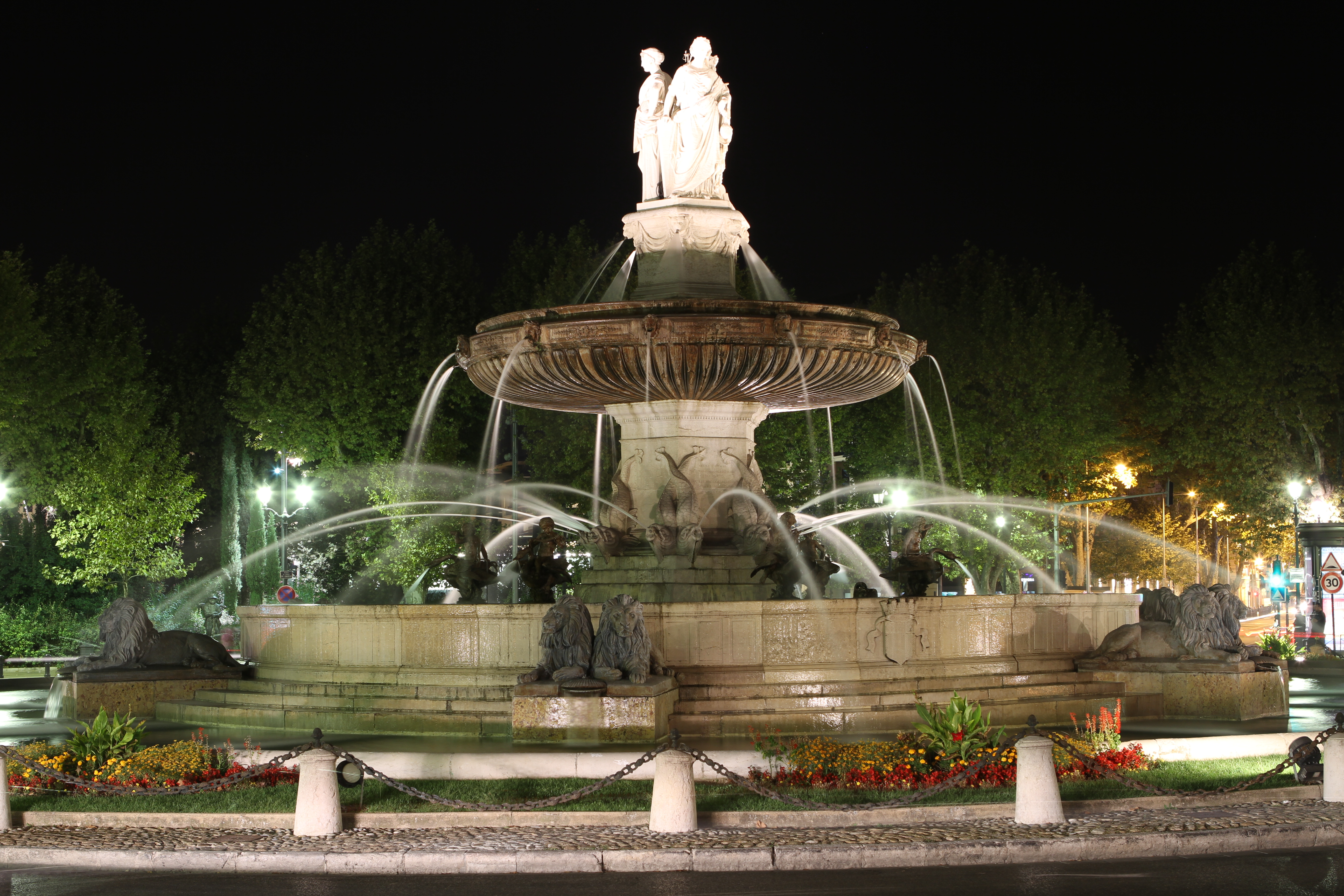 Fountain de la Rotonde in Aix-en-Provence (Bouches-du-Rhône, France).